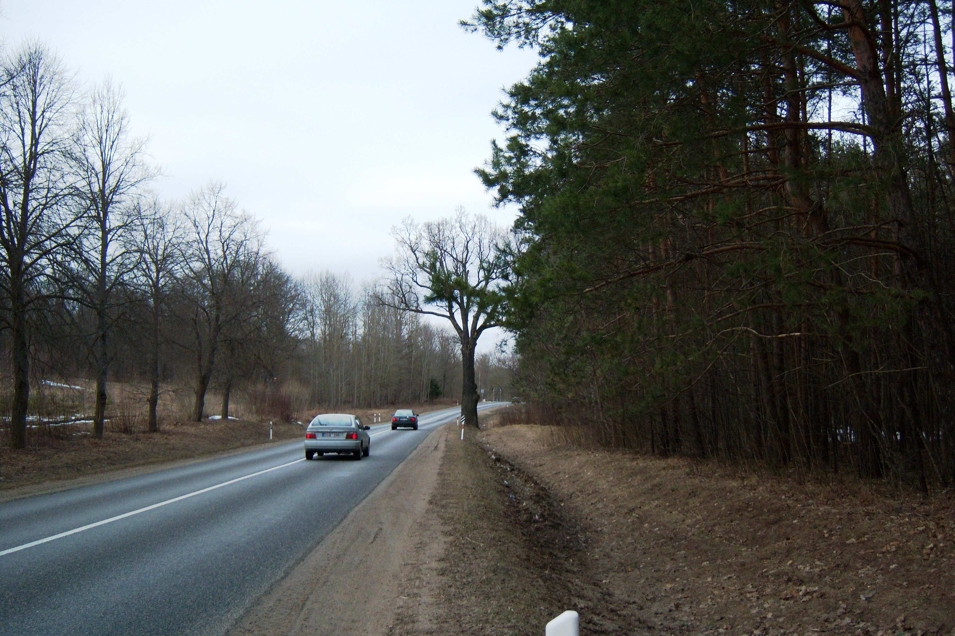 KK120. Prie Žemųjų Svirnų)